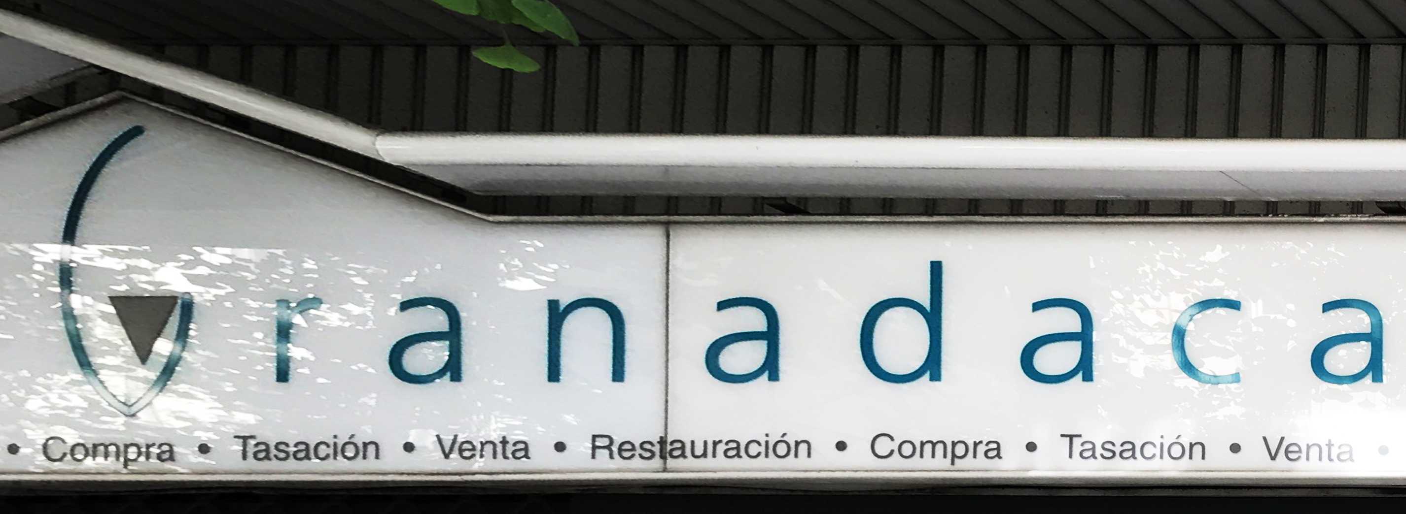 Shop sign in Granada (detail) showing bullets as word separators